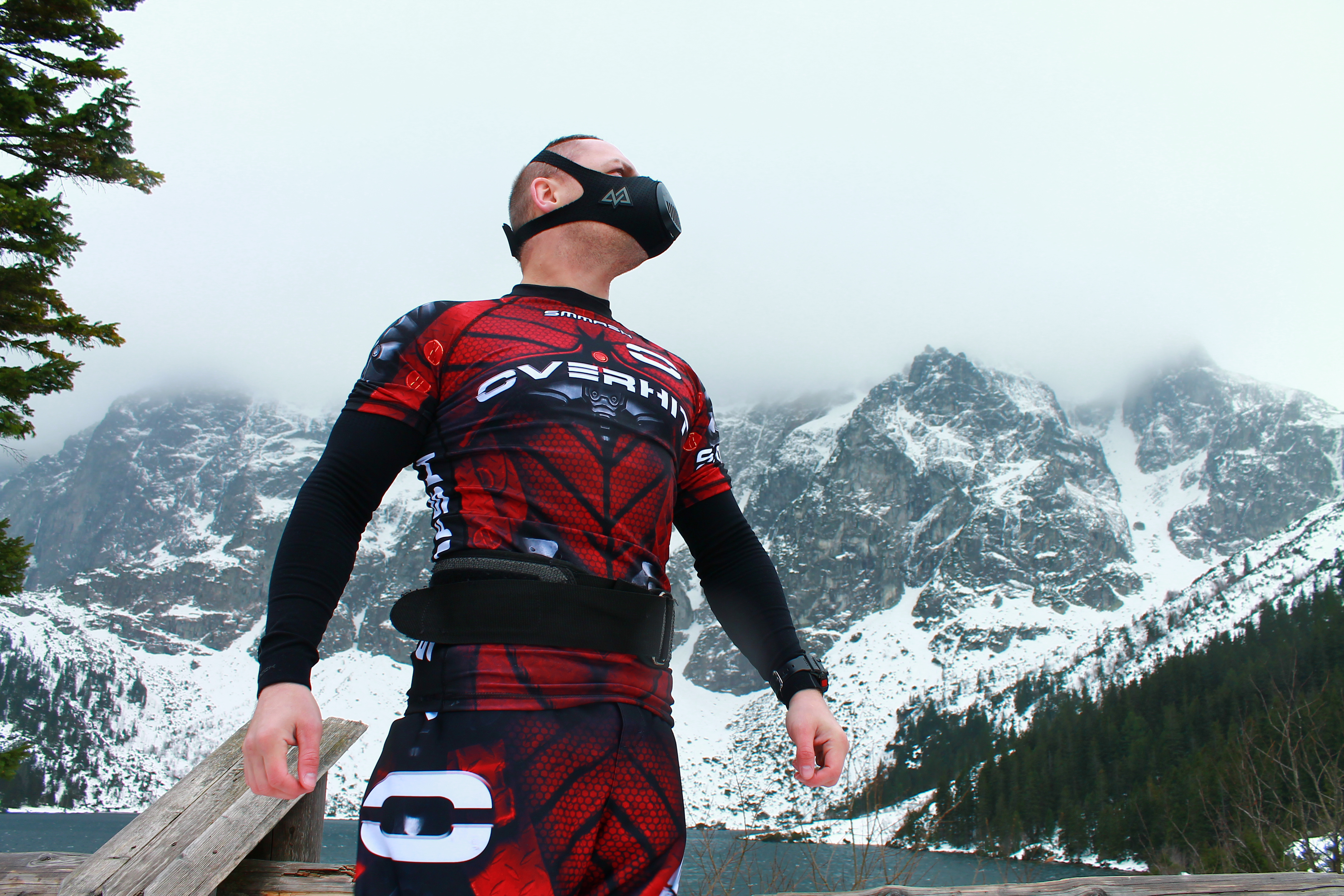 WInter